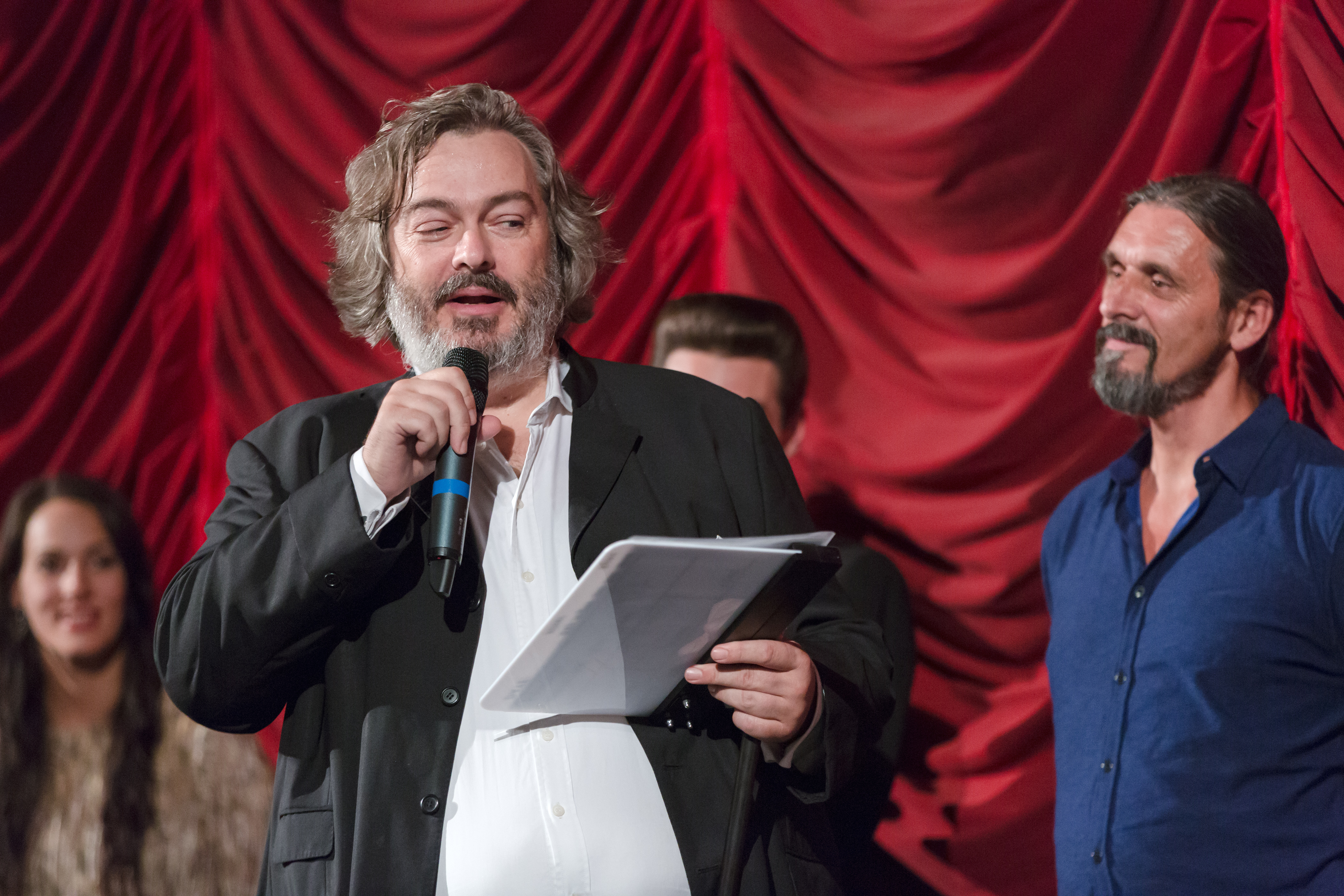 Wolfgang Ritzberger at the Viennese premiere of The Best Of All Worlds at Gartenbaukino, Vienna, Austria. Ritzberger with the award for best female actress of the Moscow International Film Festival for Verena Altenburger.